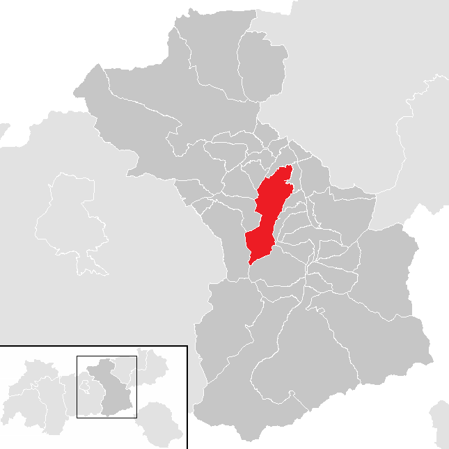 District Schwaz